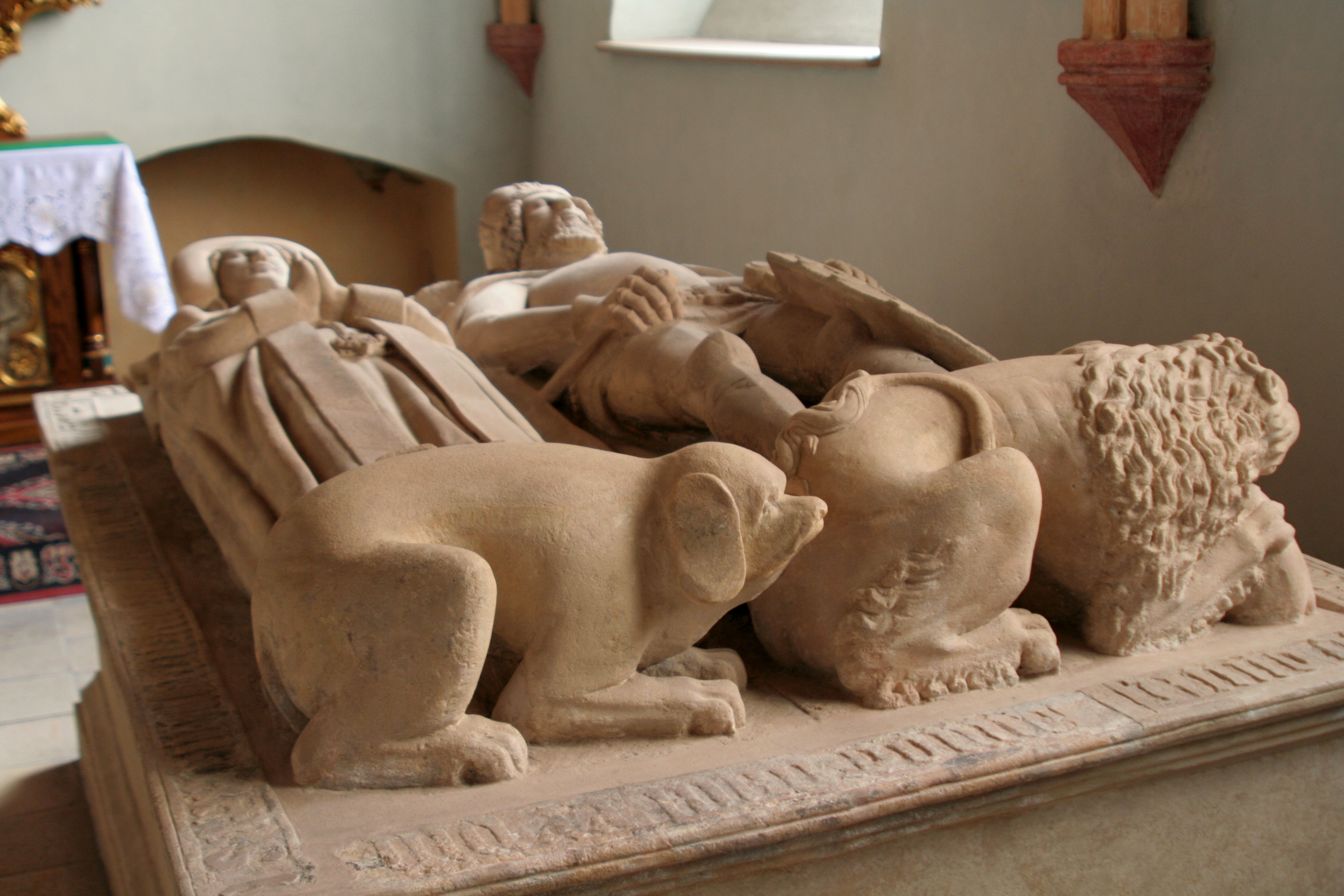 Tomba of Bolko III of Opole and Anna of Oświęcim, Opole.